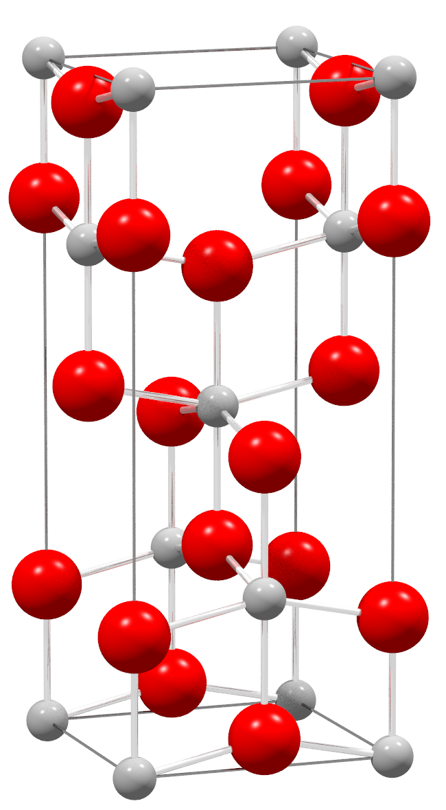 Anatase structure, unitcell